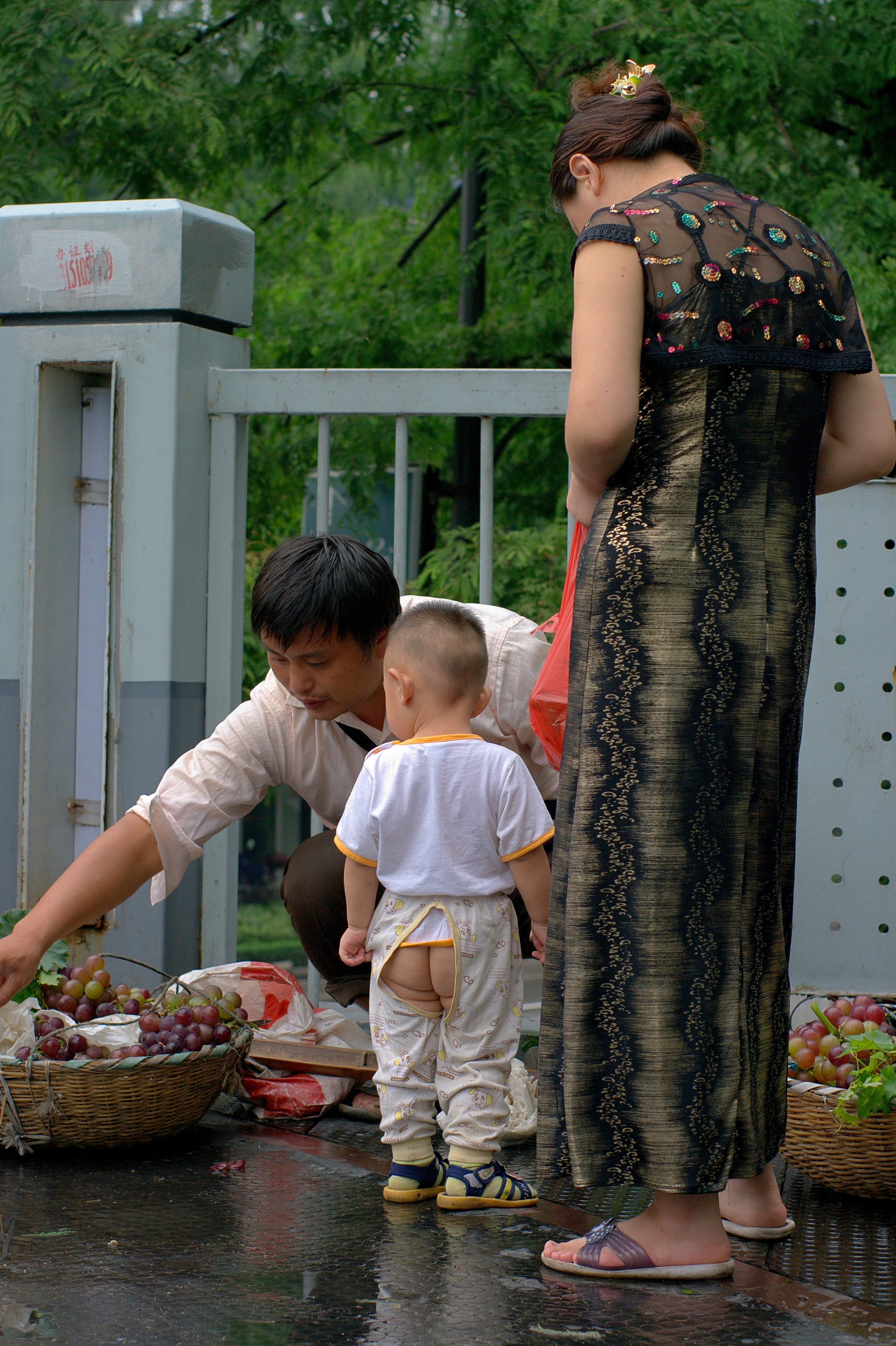 A Chinese woman and her kid are buying some fruits from a street seller. The kid wears the traditional dress. Nanjing China.